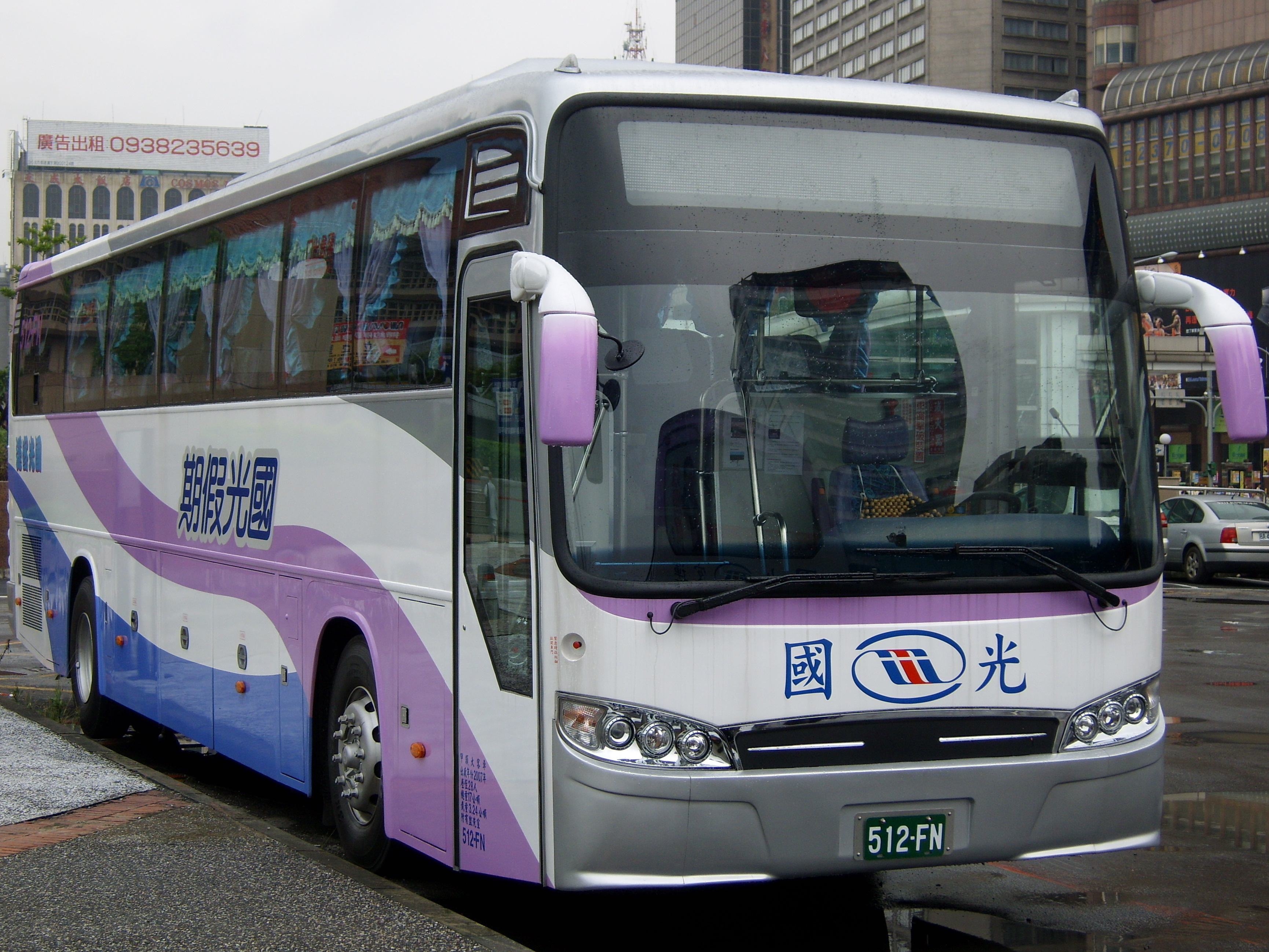 Kuo-Kuang Motor Transport Company Ltd. BX212T "Kuo-Kuang Holiday" Bus.